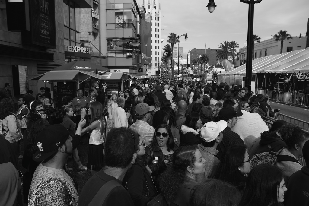 Fans at the world premiere of The Avengers, outside the El Capitan Theatre in Hollywood, California.